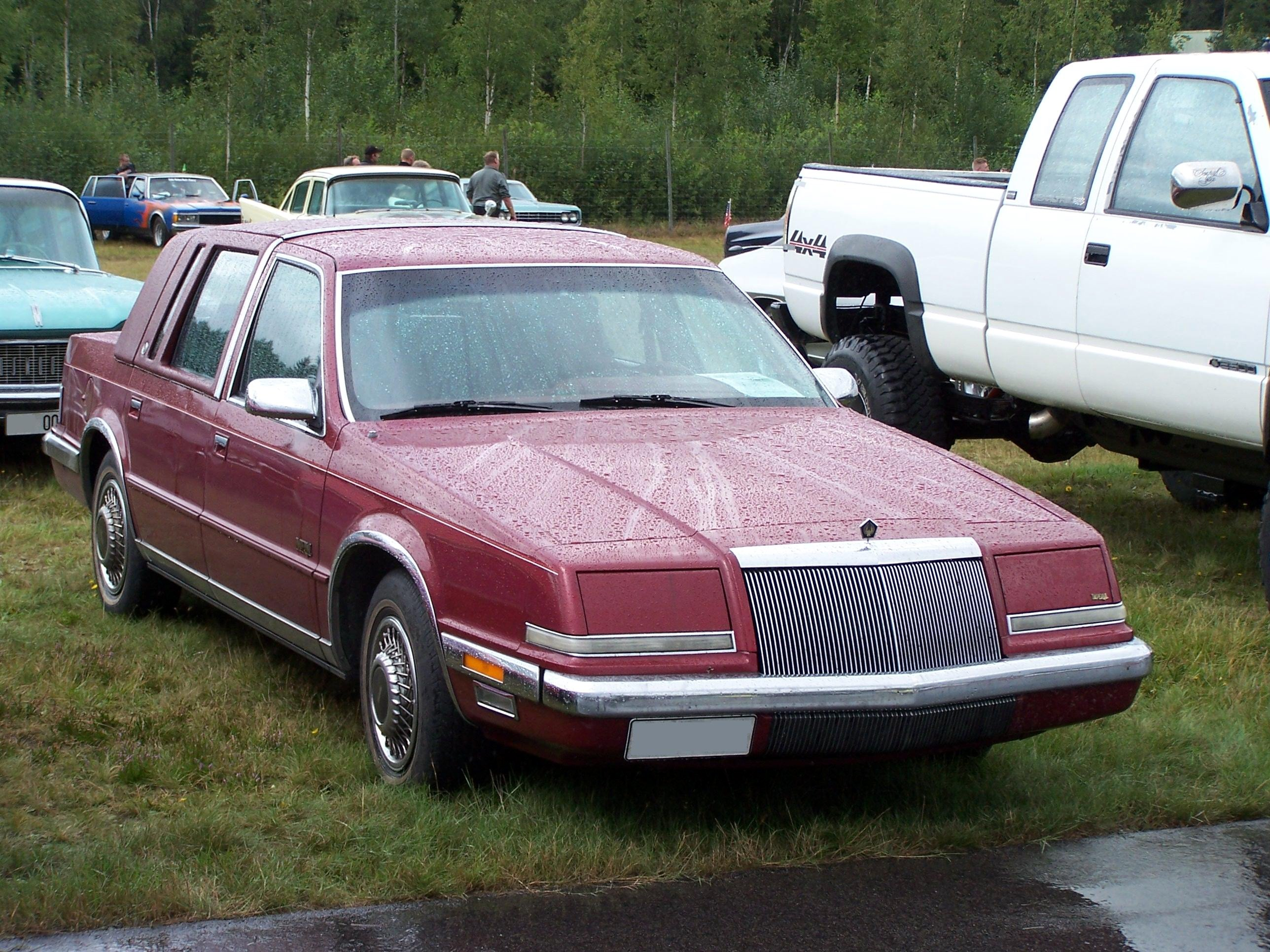 1992 Chrysler Imperial at Power End Of Summer Meet 2010, Emmaboda, Sweden.